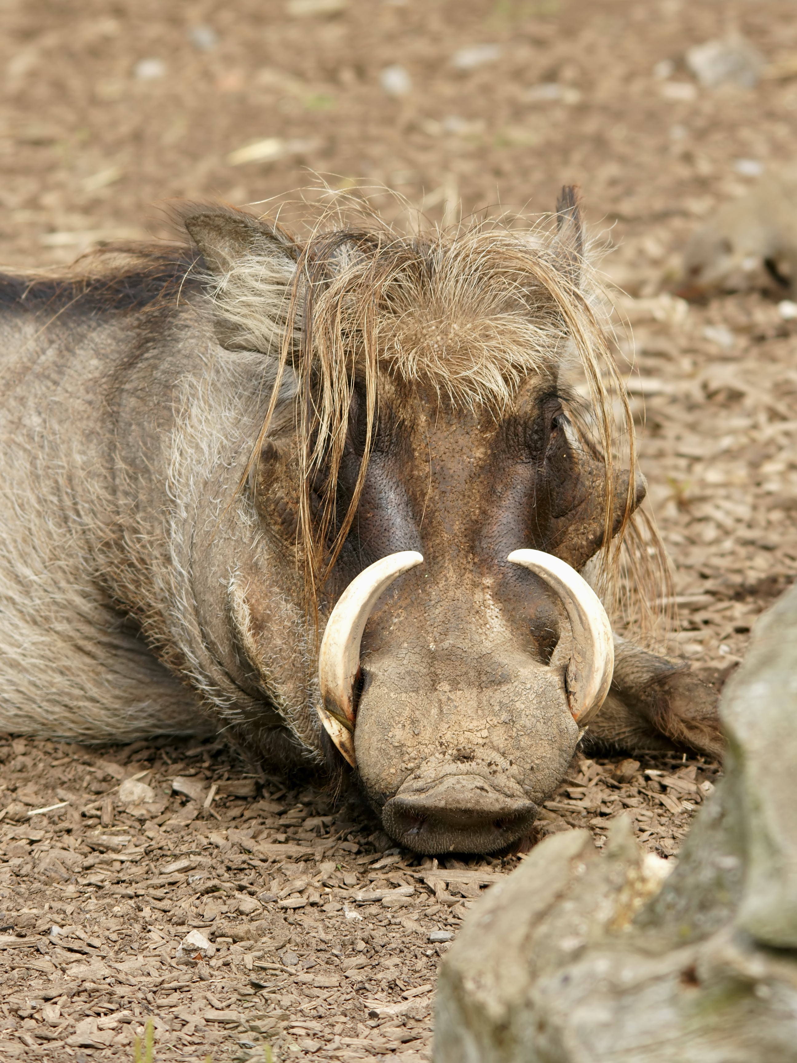 Common Warthog at Chester Zoo near Chester, UK.